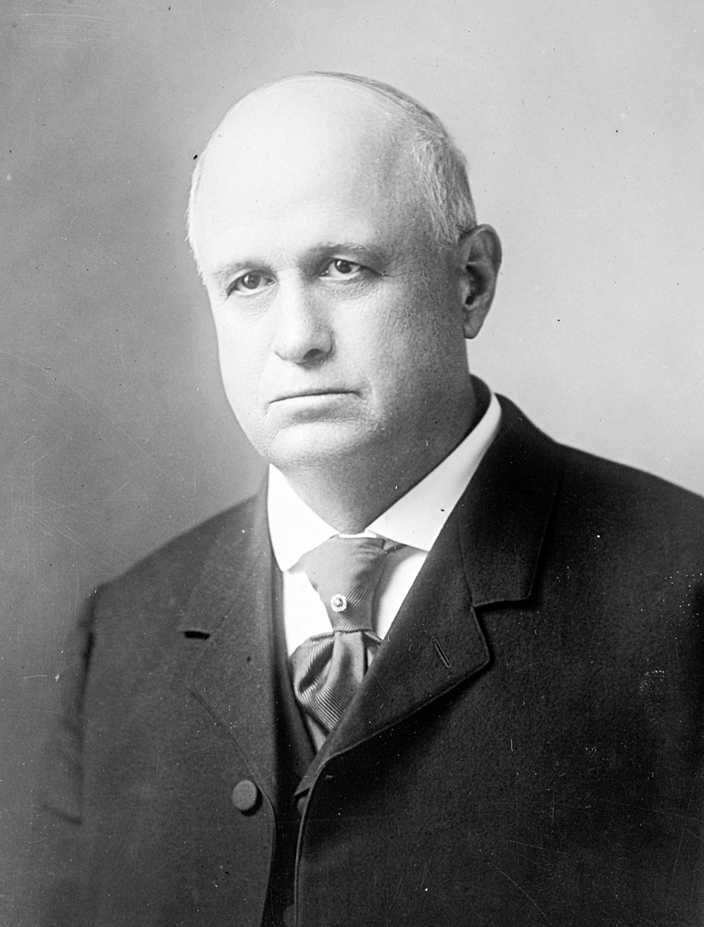 Stephen M. Sparkman, US Representative from Florida